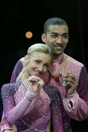 Aliona Savchenko & Robin Szolkowy during the pairs medals ceremony at the 2008 World Championships.